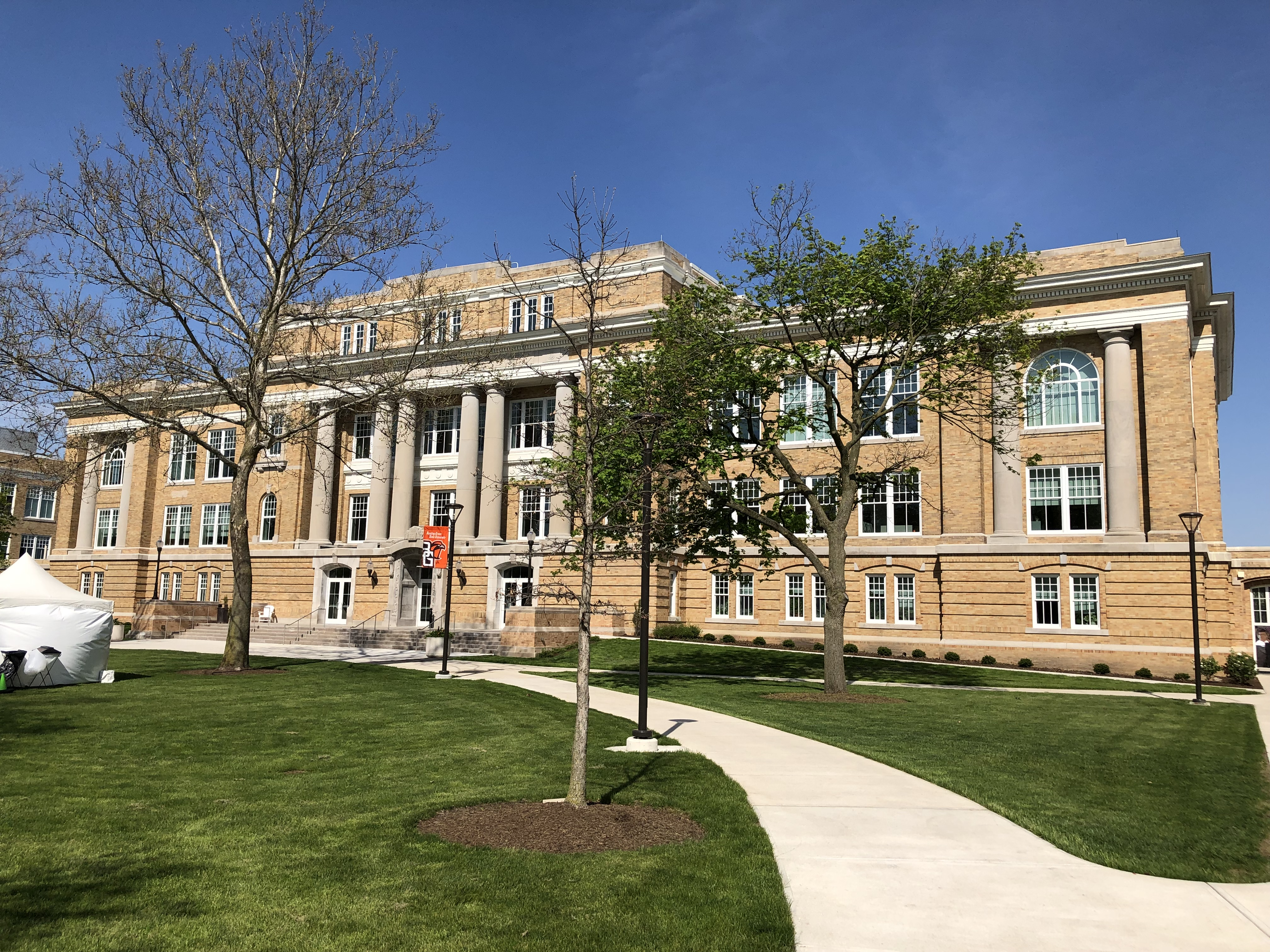 University Hall with a nearby tent pitched for an event.